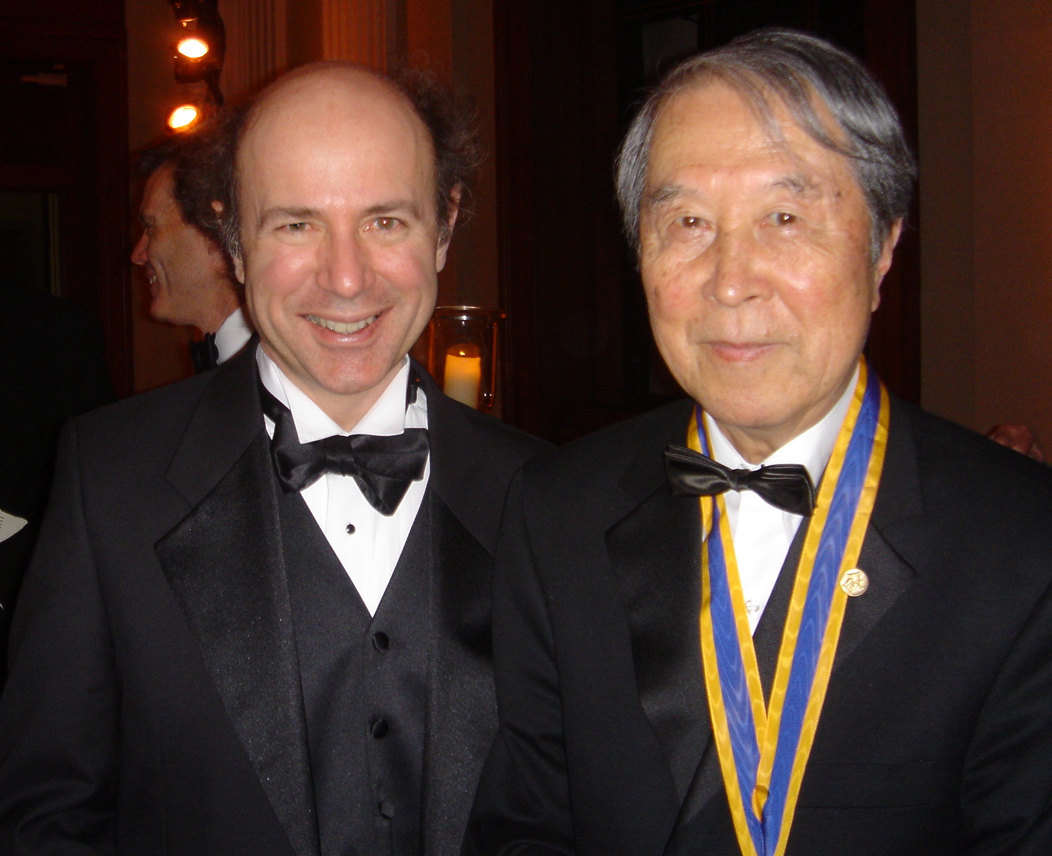 Frank Wilczek (Nobel Prize in Physics, 2004) with Yoichiro Nambu (Nobel Prize in Physics, 2008) at a Franklin Institute ceremony in Philadelphia (2005) honoring Nambu with the Franklin Medal, which he is wearing in this picture.